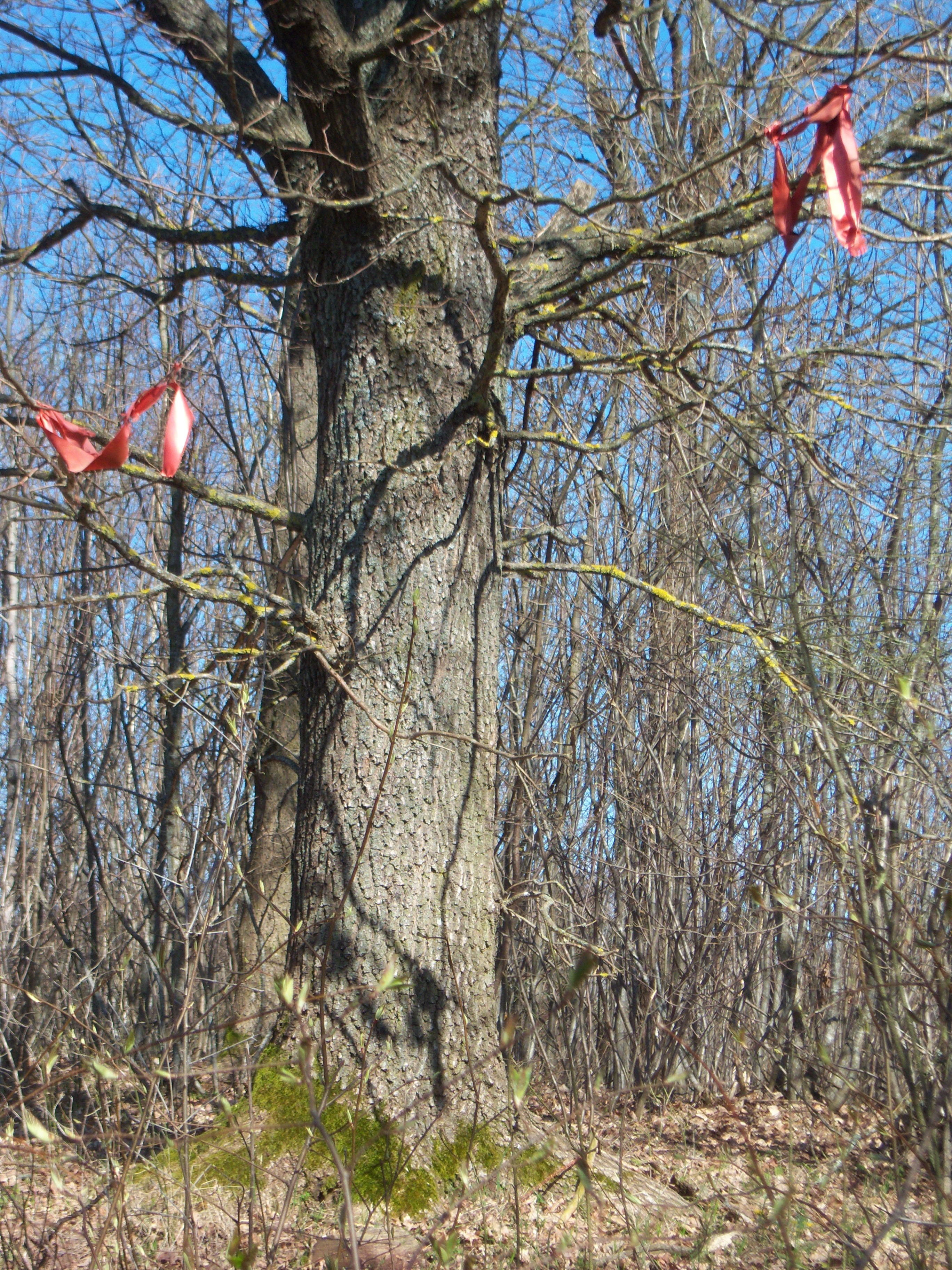 Hillfort in Nemajūnai, Birštonas municipality, Lithuania